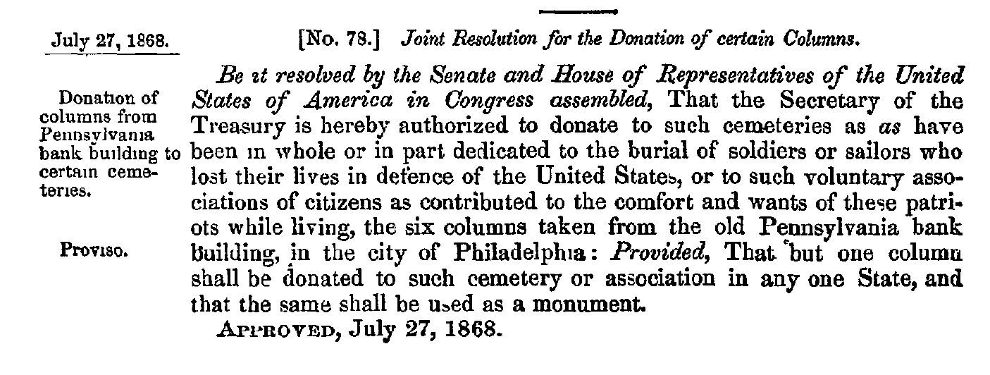 Latrobe Column for Memorial